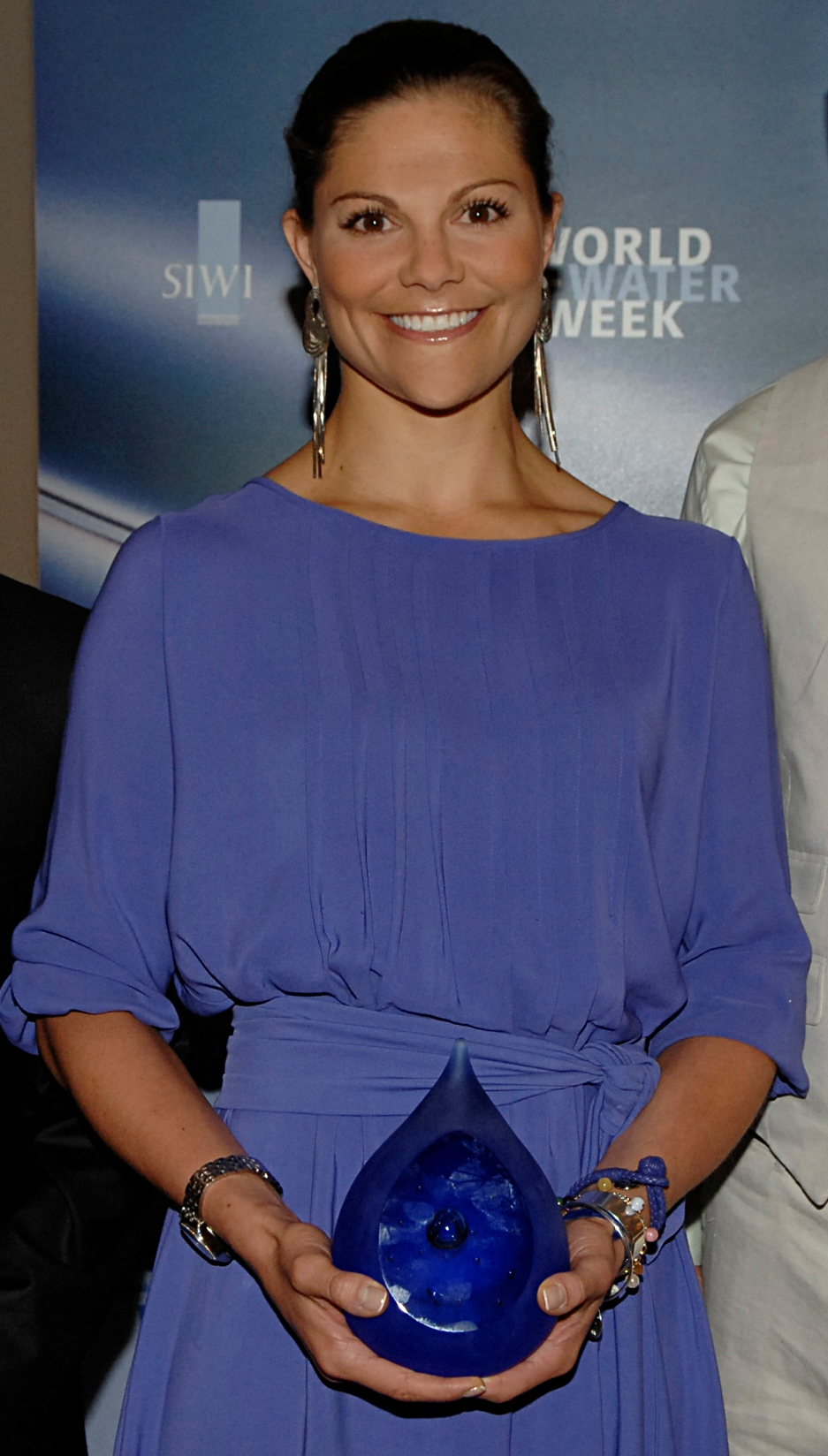 2010 Stockholm Junior Water Prize winners with Crown Princess Victoria of Sweden